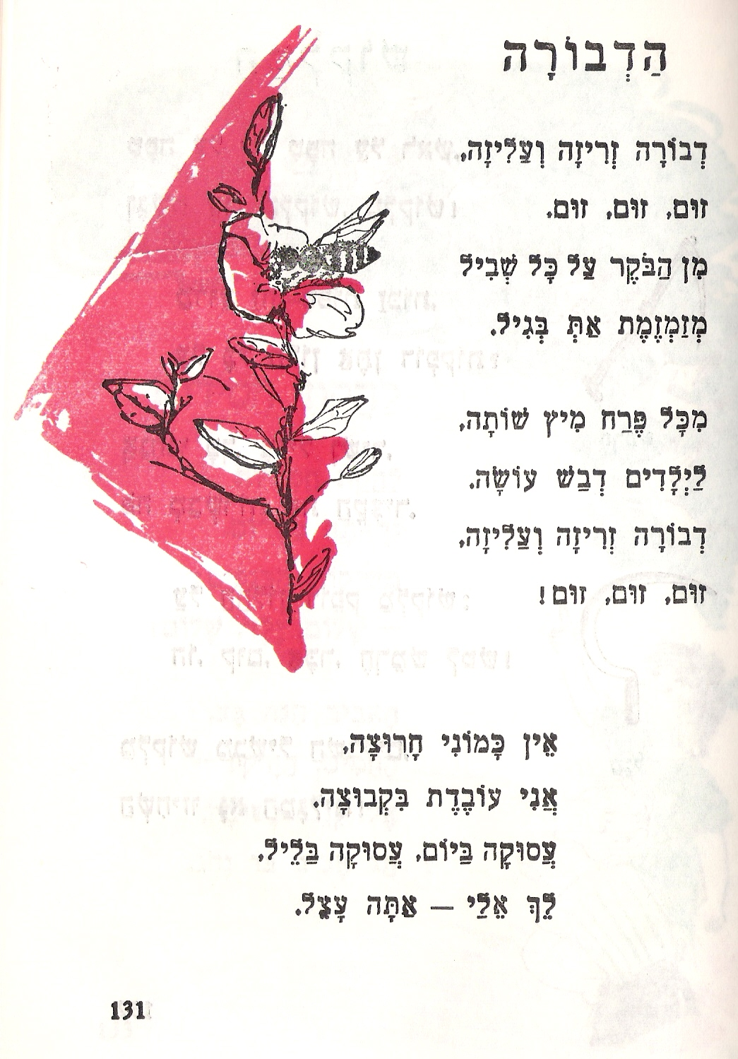 My friend - a textbook for reading and writing for the first year